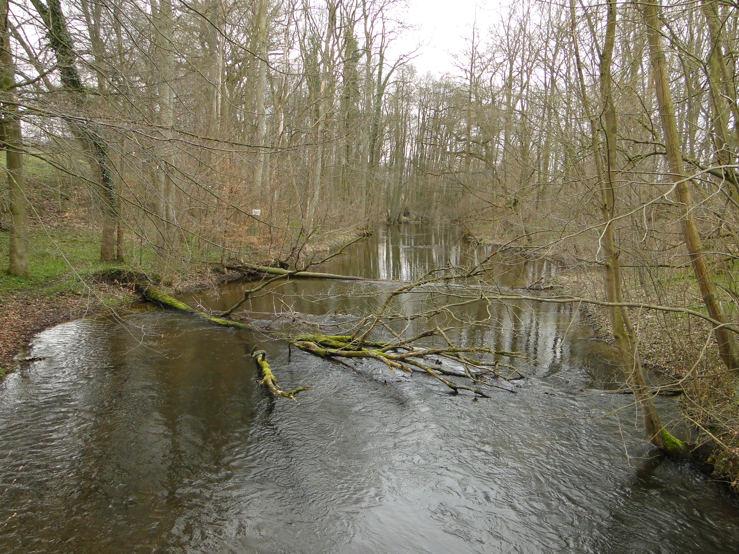 Nebel river in Koppelow, disctrict Güstrow, Mecklenburg-Vorpommern, Germany